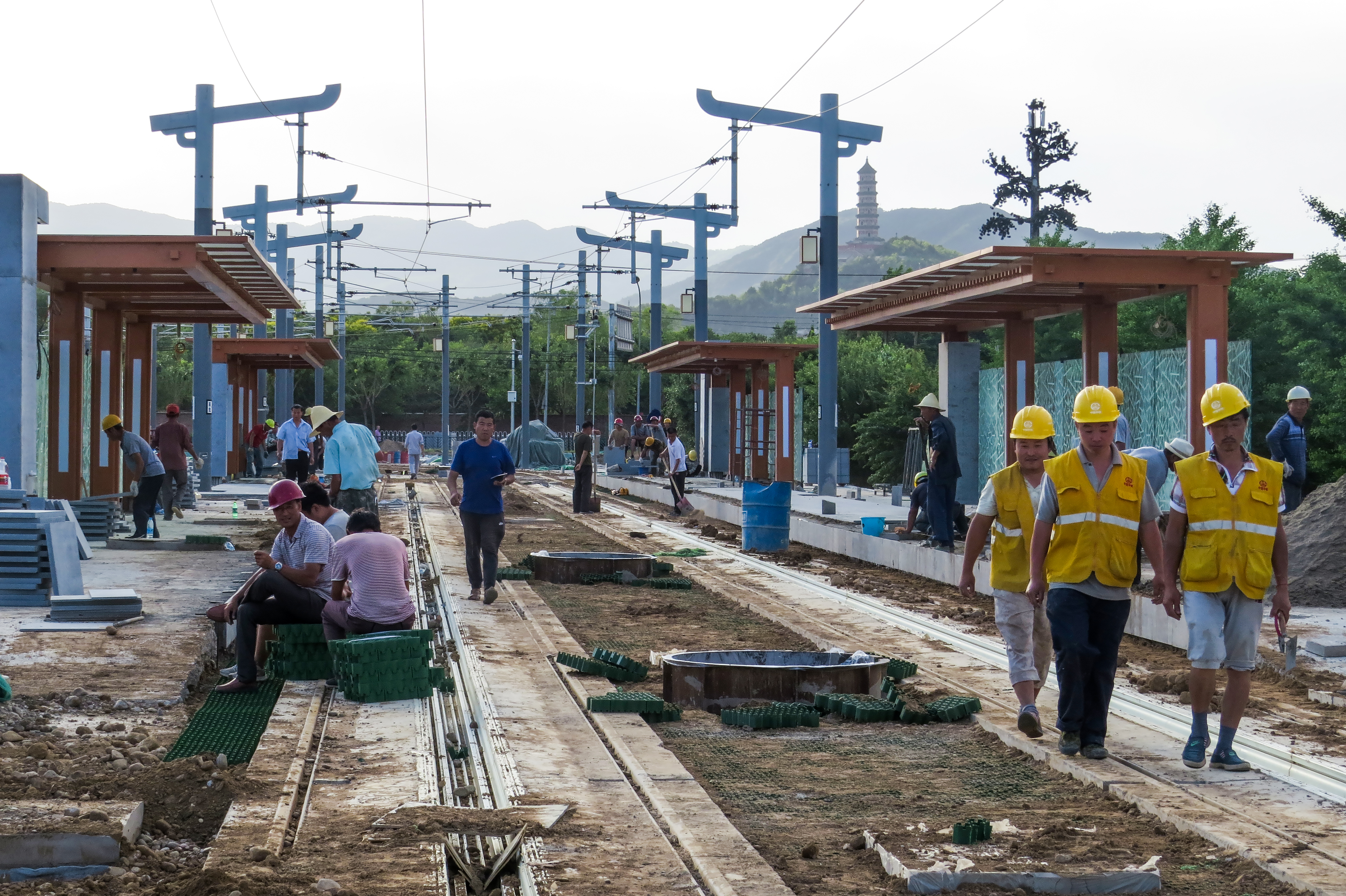 Not so far from the depot of 469 & 539. Just got a feeling of MUNI Metro, which features both ground-level and underground sections.